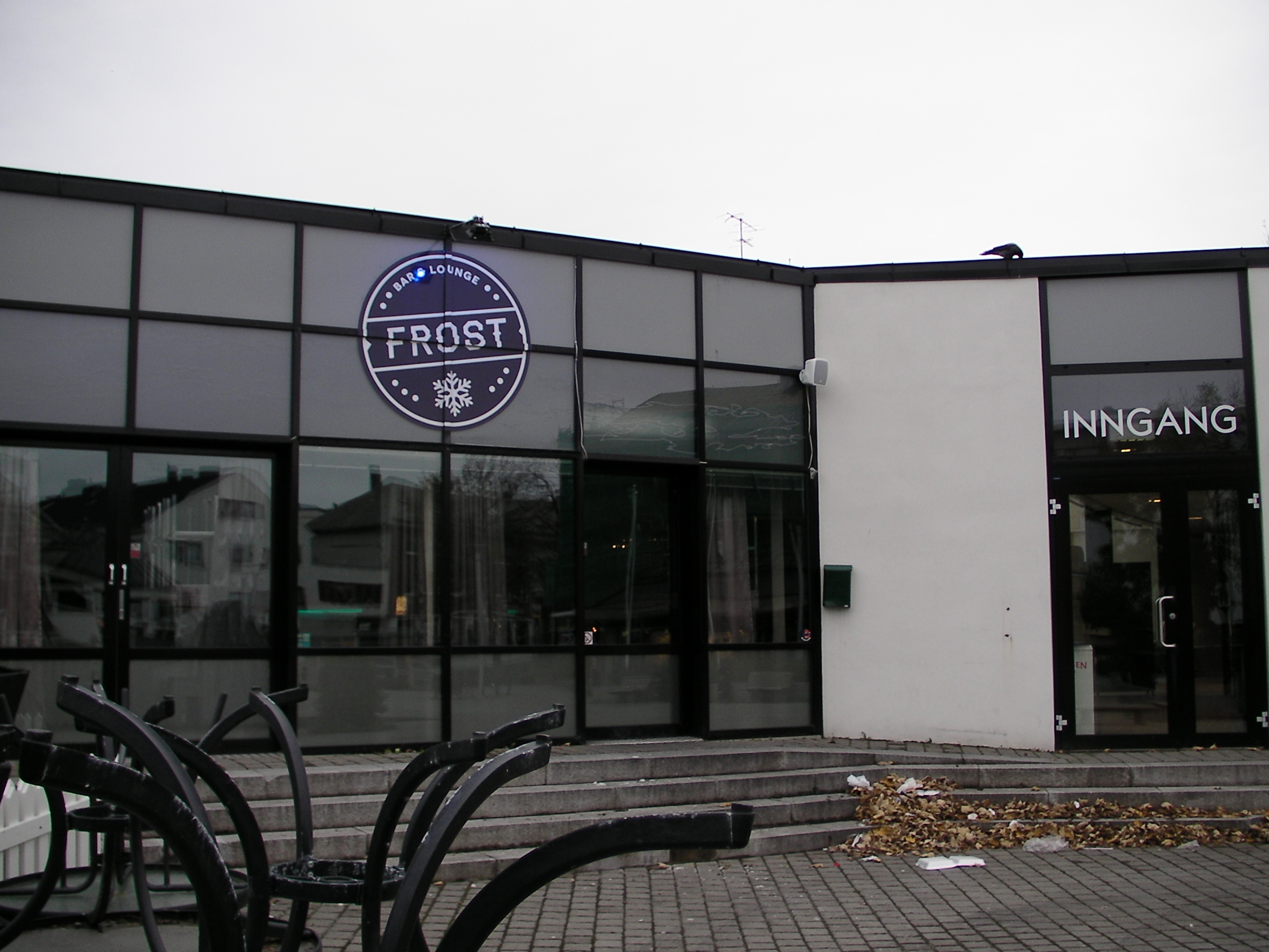 Frost Bodo